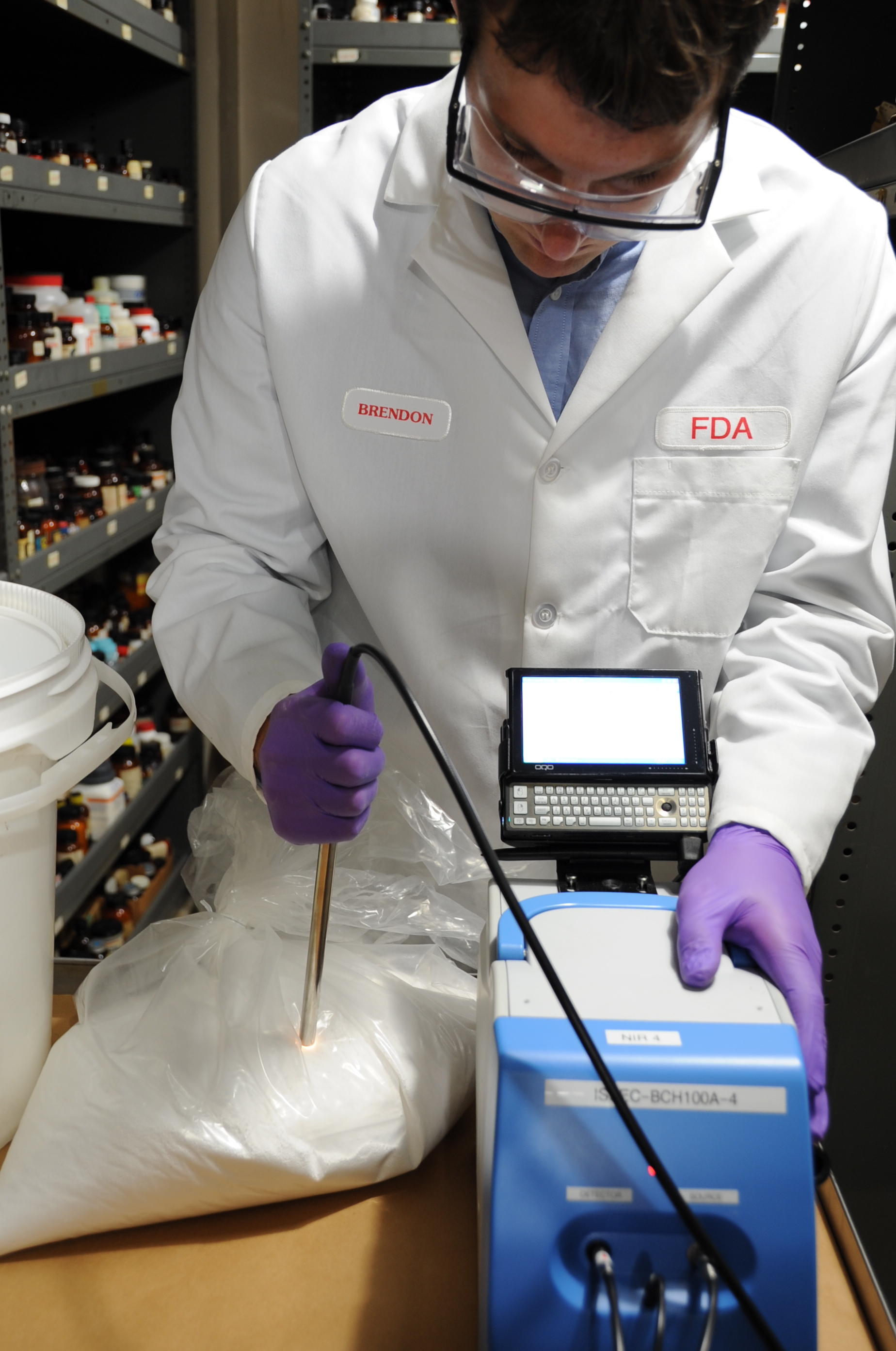 An FDA scientist tests lactose for the presence of melamine with the portable near infrared (NIR) spectroscopy device. Lactose is a common raw ingredient in pharmaceutical products. Portable rapid spectroscopic technologies—which analyze the dispersion of an object’s light to determine the object’s chemical or molecular composition—may hold the key to a new era of product-safety screening. By allowing investigators to screen products earlier in the supply chain, these portable devices could significantly cut risks from contamination or counterfeiting of medicines, dietary supplements, cosmetics, and perhaps even foods. For more information, read this FDA Consumer Update